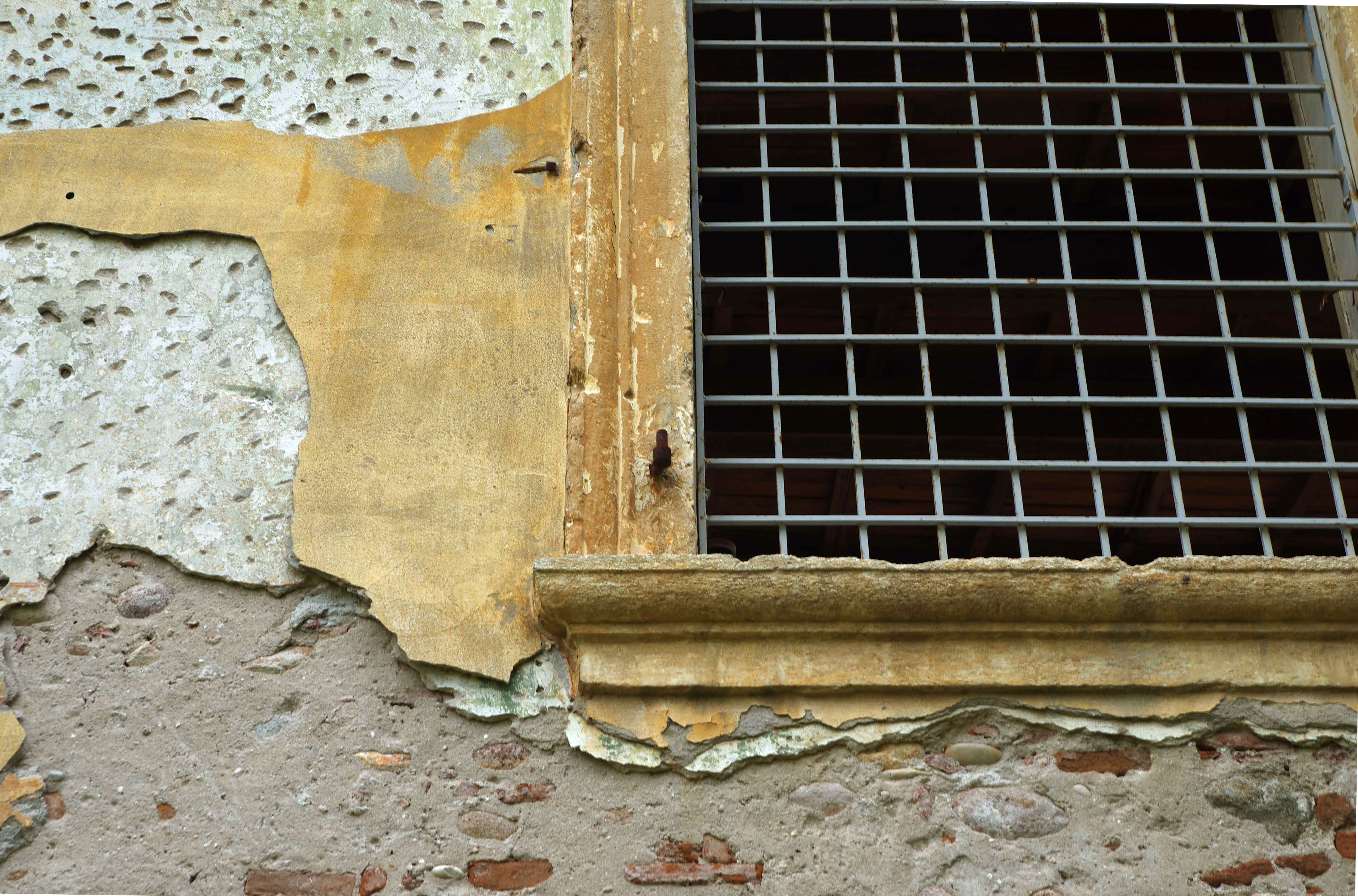 Typical example of mismanagement of the Italian cultural heritage, now being restored after decades of neglect